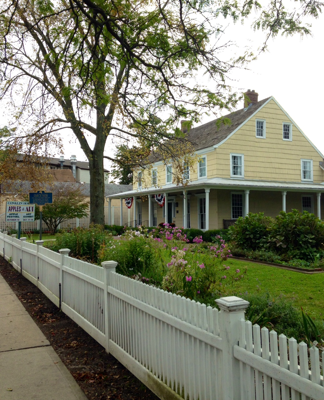 The Conklin House, one of the oldest homes in Babylon Village